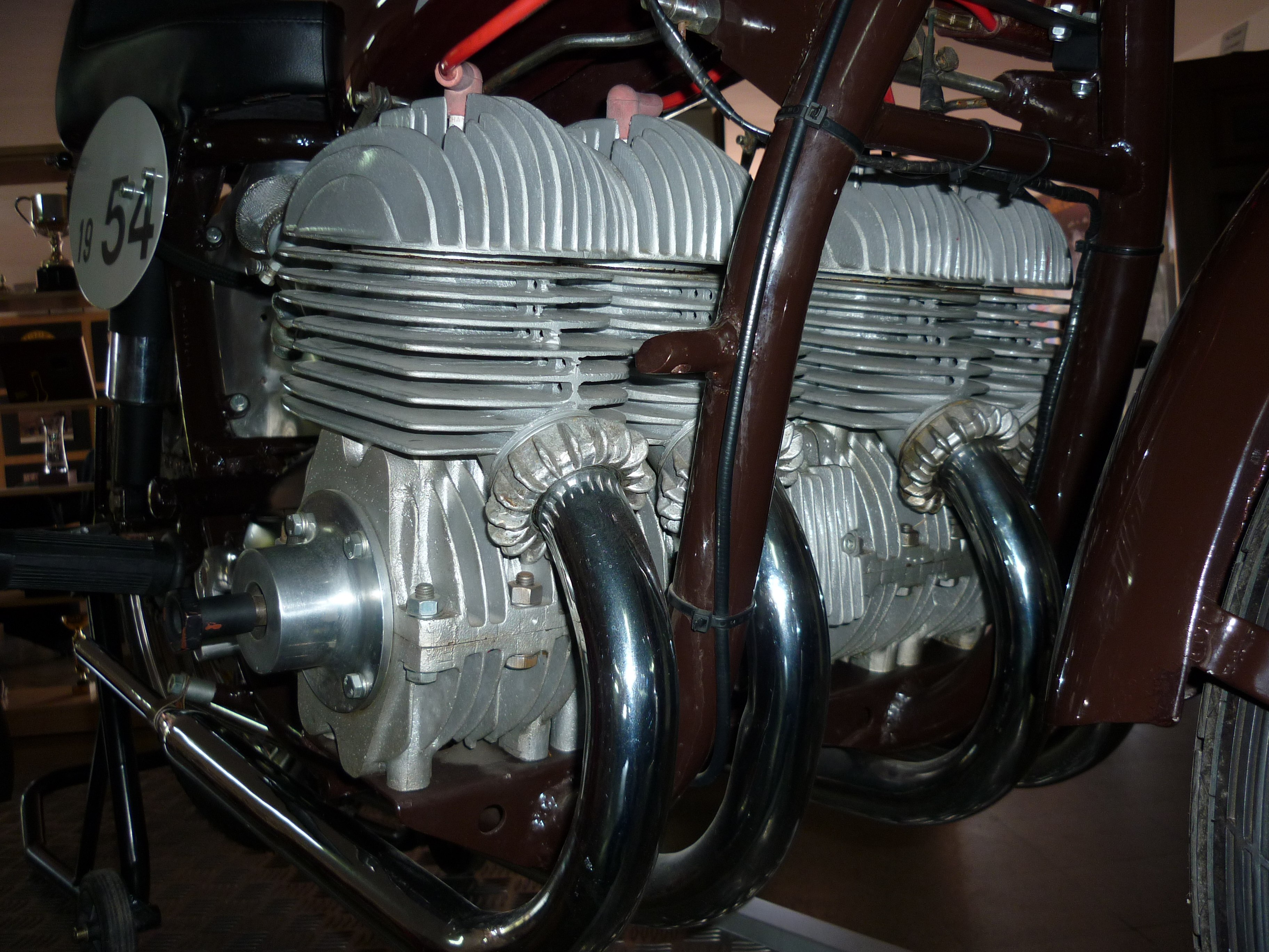 Engine of the Derbi 4 cylinders 392cc (made by Jaume Pahissa in 1954). Isern Motorcycle Museum, Mollet del Vallès (Catalonia).